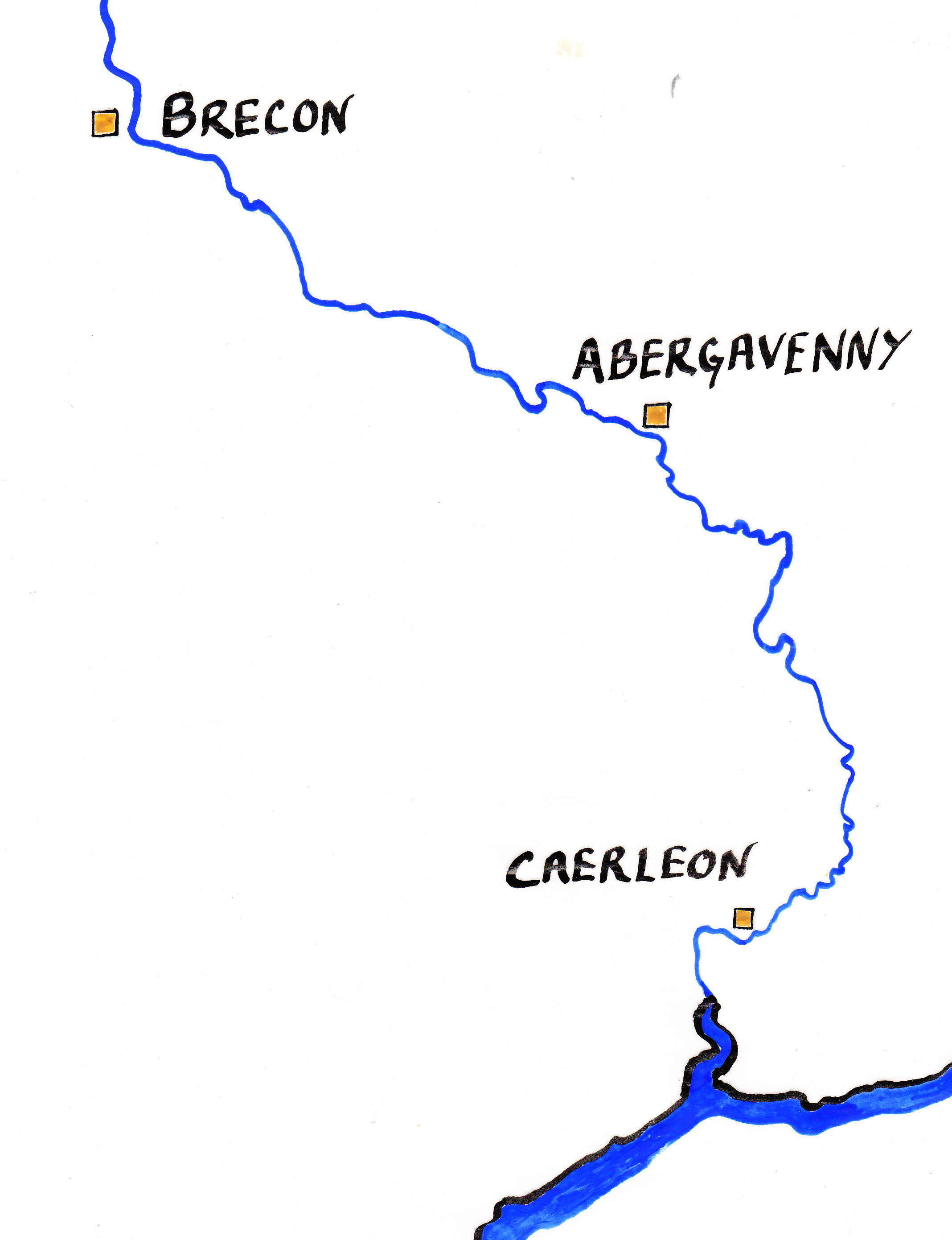 Map of River Usk, South Wales